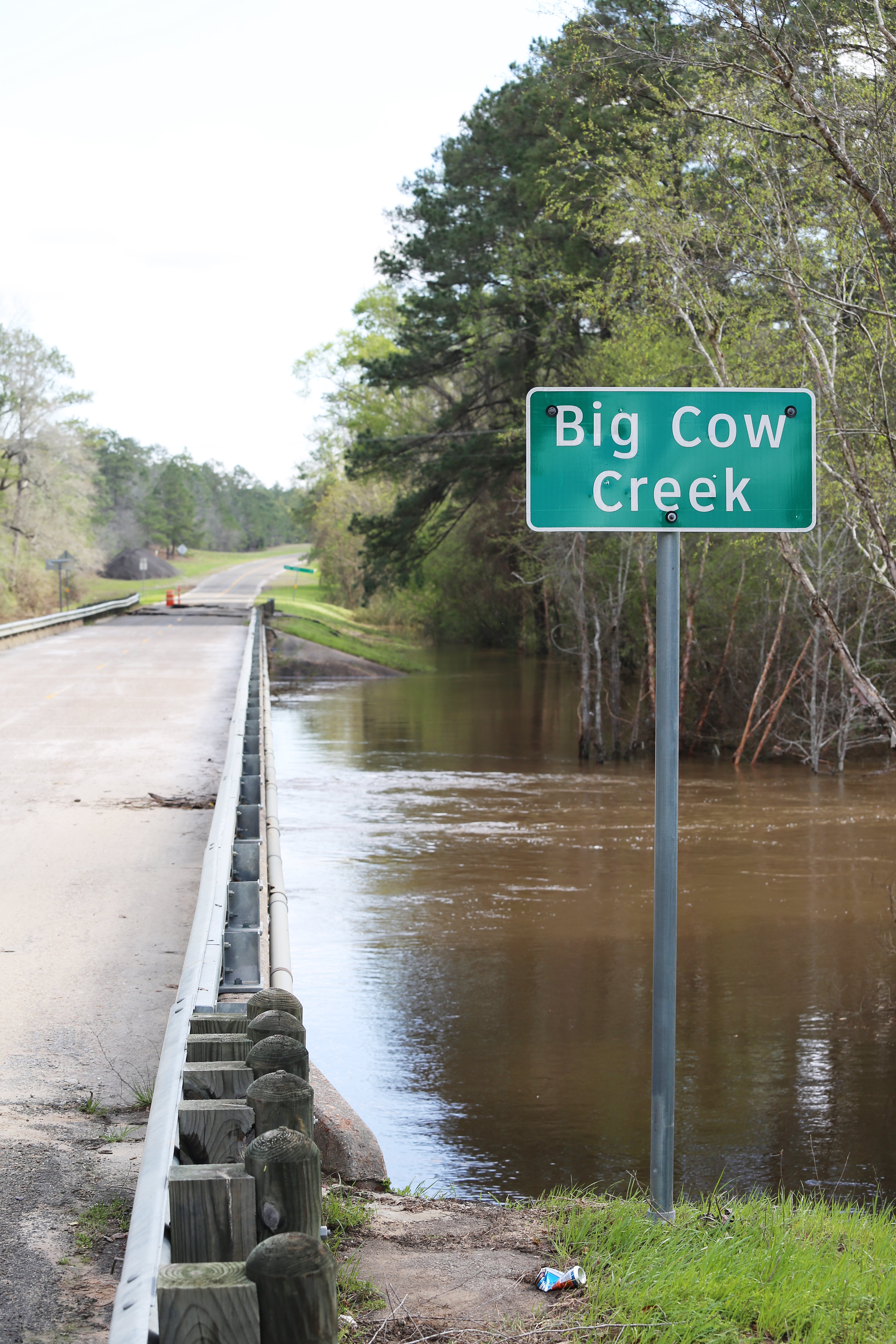 Cow Creek Bridge between Trout Creek and Old Salem